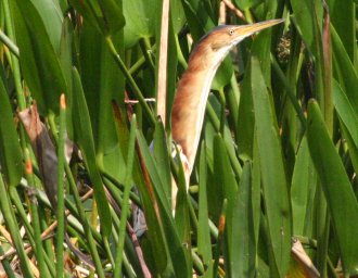 Least Bittern. Taken in Lake Hollingsworth, Lakeland, FL